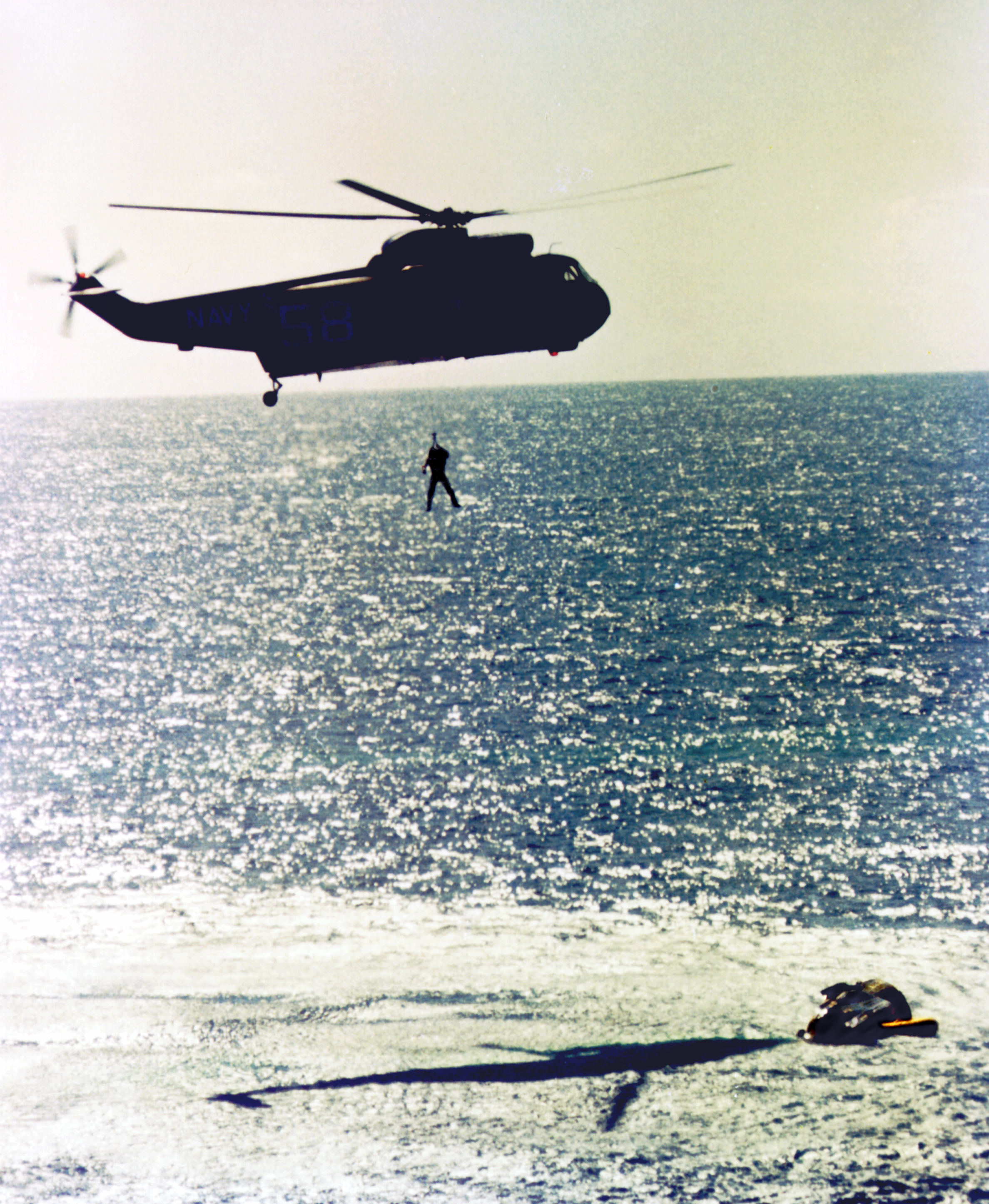 Astronaut L. Gordon Cooper, Jr., Command Pilot of the Gemini 5 spacecraft is hoisted into a Sikorsky SH-3A Sea King from Helicopter Anti-Submarine Squadron 5 (HS-5) after the Gemini 5 eight day mission. The NASA Gemini 5 spacecraft was launched at 9:00 a.m., EST, August 21, 1965. Splashdown occured at 07:56 hrs, EST, 29 August 1965. HS-5 was assigned to Carrier Anti-Submarine Air Group 54 (CVSG-54) aboard the aircraft carrier USS 'Lake Champlain (CVS-39) for the recovery of Gemini 5.